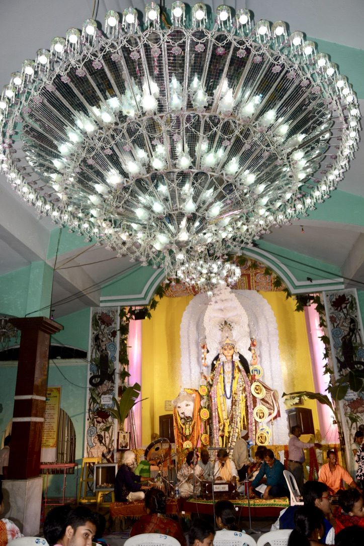 This image of Goddess Jagaddatri in Chandannagar (which is a town in Hooghly district of West Bengal) is probably the oldest puja in the town. The goddess is regarded as "Adi Maa" by the locals and is being worshipped in the same place for nearly 300 years.